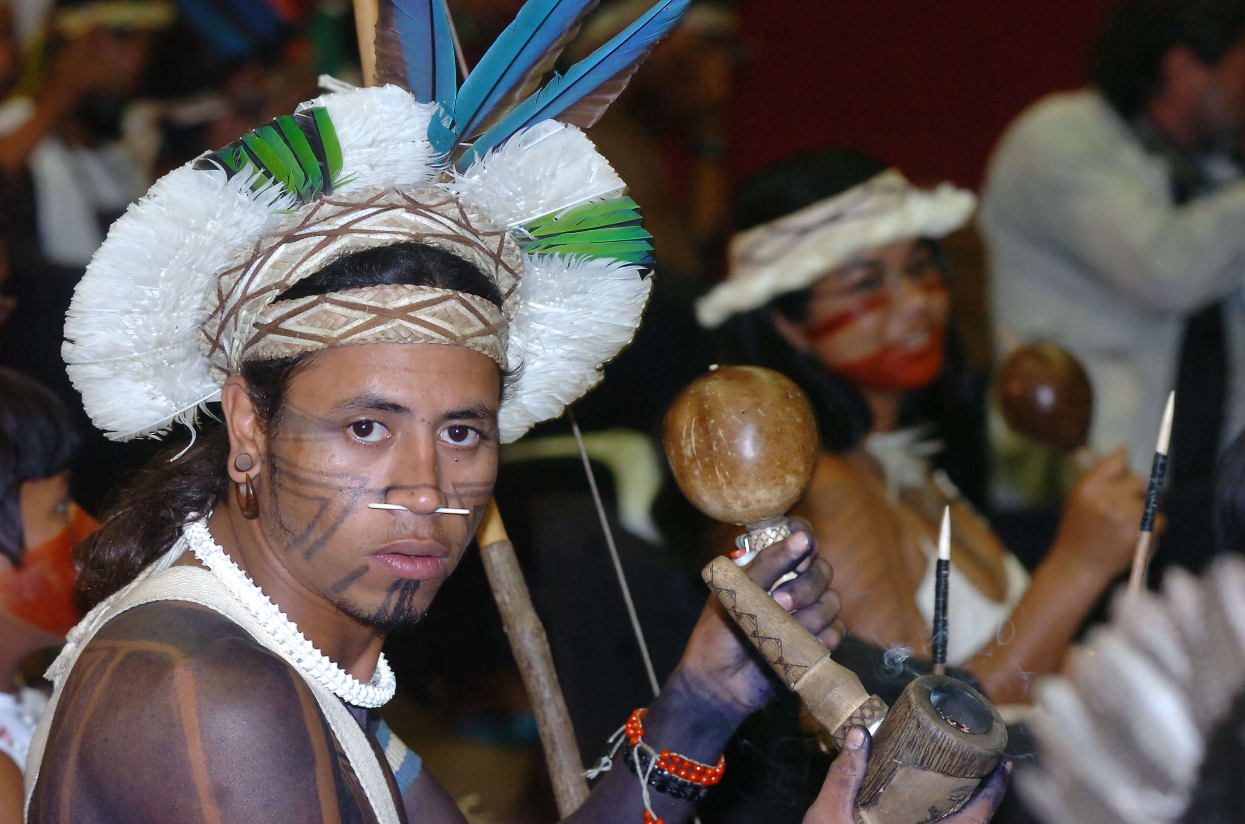 Pataxó Hã-Hã-Hãe indian in Brazilian Congress, during an act for Caramuru-Paraguaçu indian land, in Bahia state, Brazil